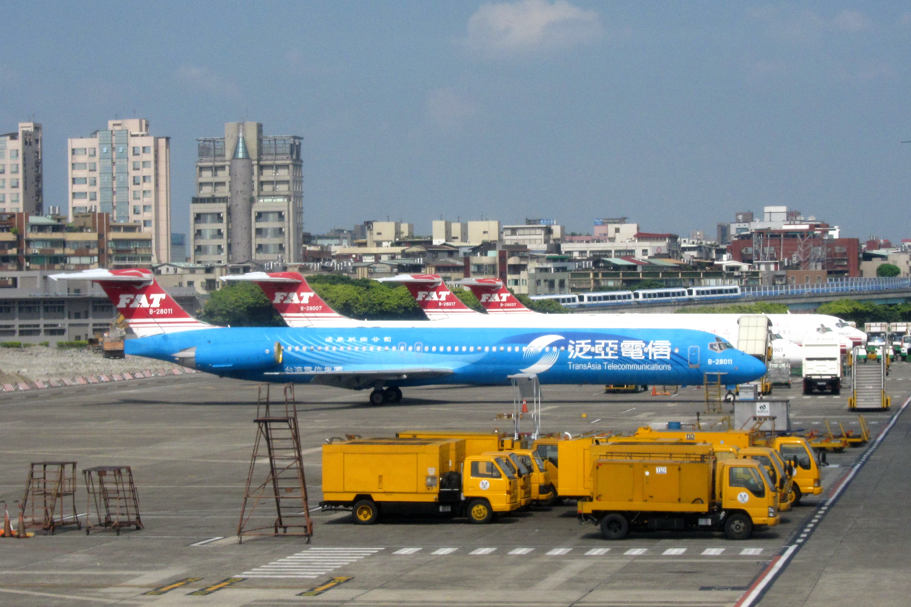 Taipei Songshan Airport, McDonnell Douglas MD-82, c/n:53118 Far Eastern Air Transport.